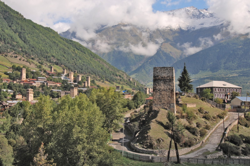 Mestia, Svaneti